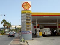 Shell Garage, Winston Churchill Avenue, Gibraltar